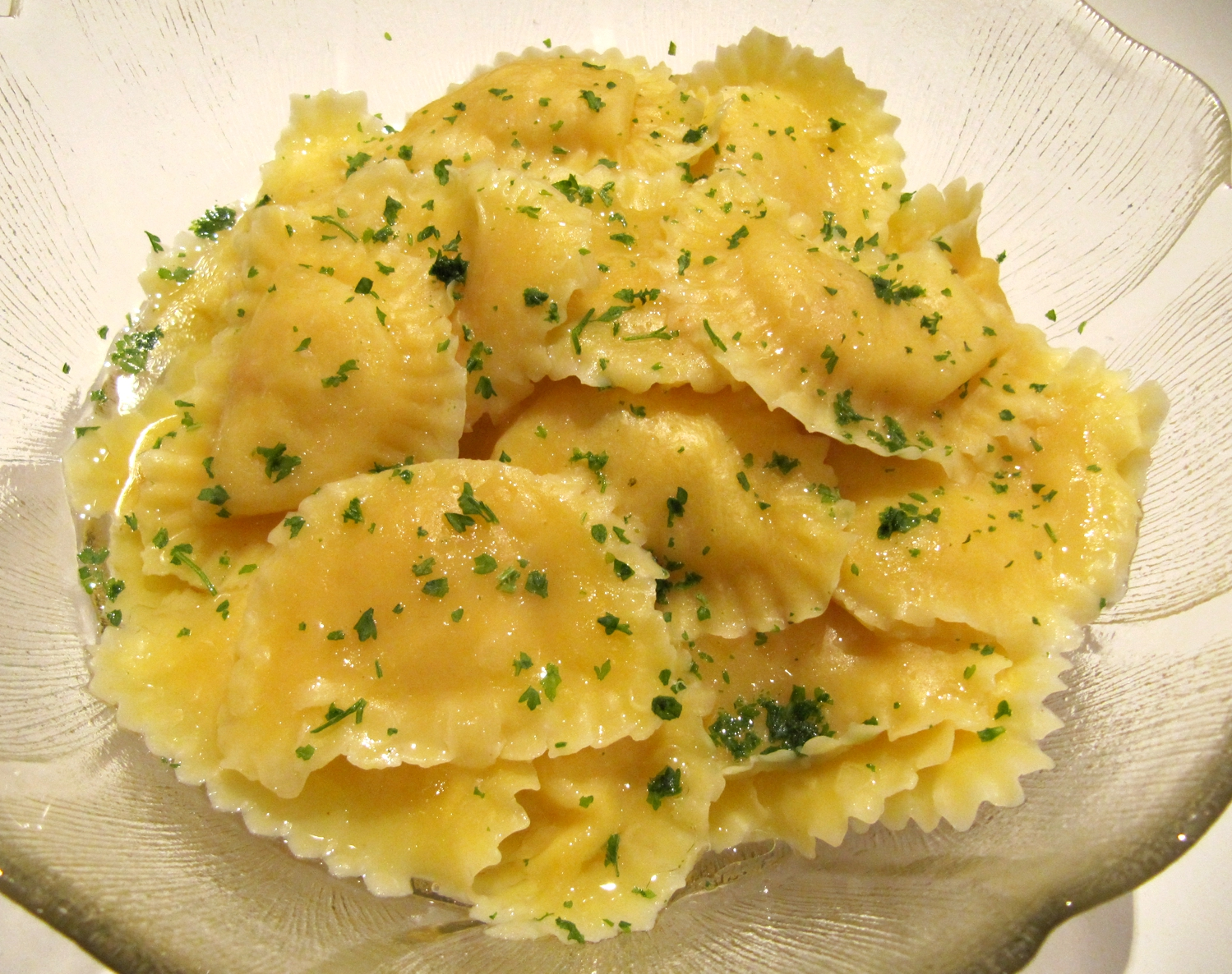 cooked panzerottis